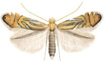 Phyllonorycter platani